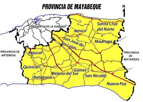 Map of Mayabeque province in Cuba, showing main rodas, railways and munipalities